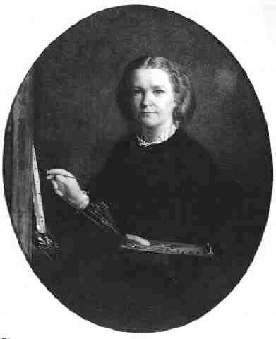 Self-portrait by Eliza Turck (1832 - 1891), English figure and landscape painter